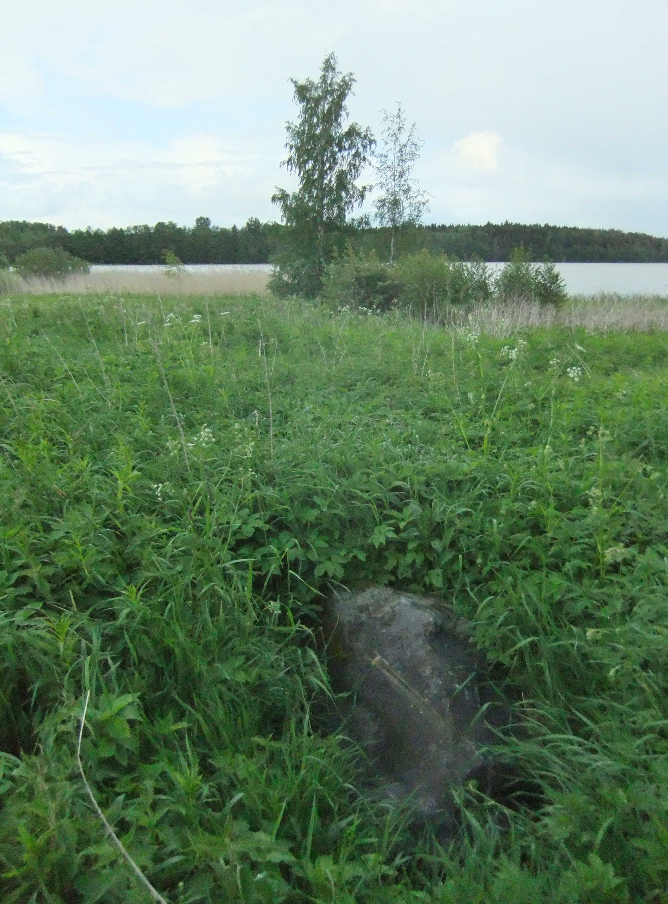 The Suotaala Anttila Groove Stone by lake Vanajavesi in Tyrväntö, Hattula, Finland. An Iron Age heritage site.